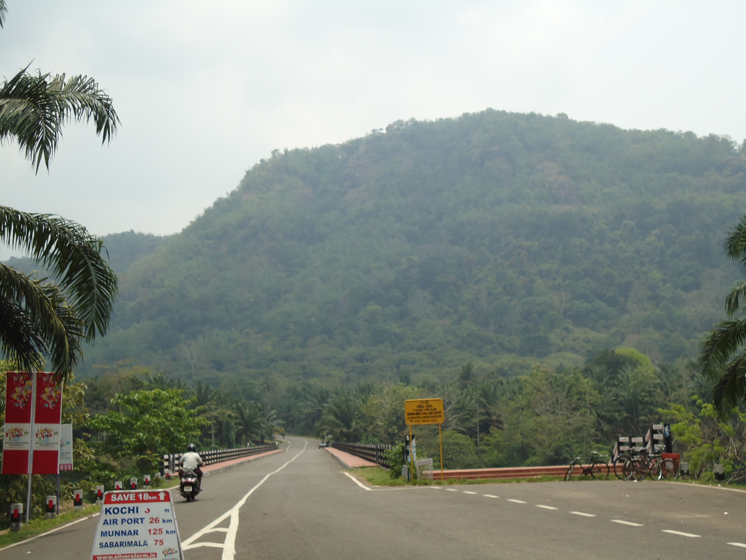 Vettilappara Bridge Other Side Basa Sunda: വെറ്റിലപ്പാറ പാലം , കാലടി പ്ലാന്റേഷന്‍ എസ്റ്റേറ്റ് ചിത്രത്തില്‍